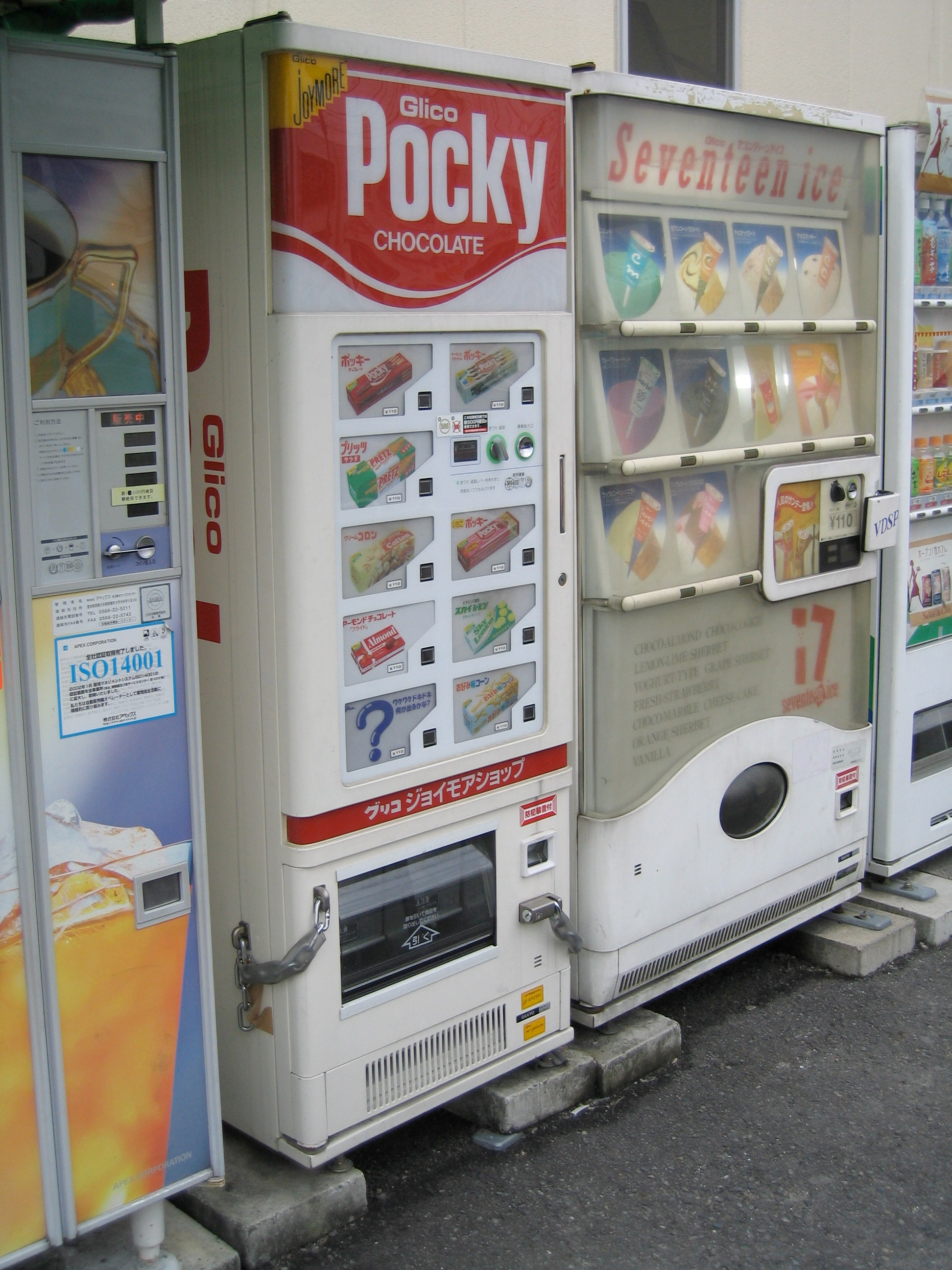 Ezaki Glico's two vending machines of Pocky Pretz and seventeen-ice in Nagoya